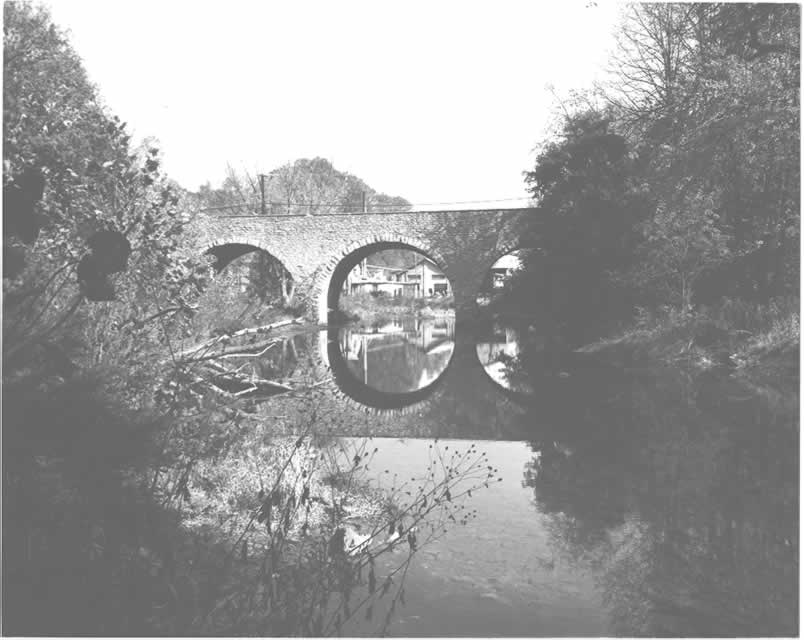 Side of the County Bridge No. 101, which carries Wagontown Road over Brandywine Creek near Rock Run in Valley Township, Chester County, Pennsylvania, United States. Built in 1918, this stilted stone arch bridge is listed on the National Register of Historic Places.